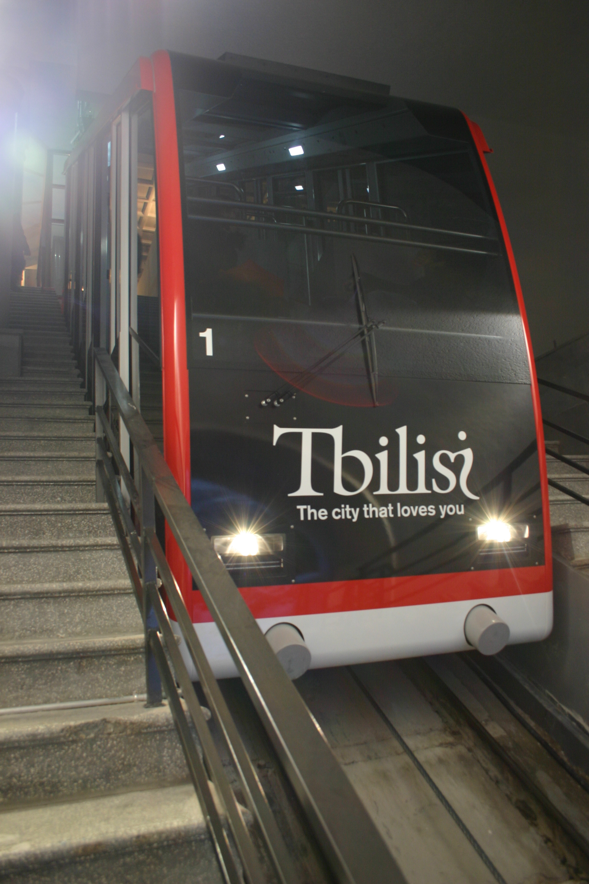 The Funicular of Tbilisi in January 2013, a couple of weeks after it was reopened in December 2012